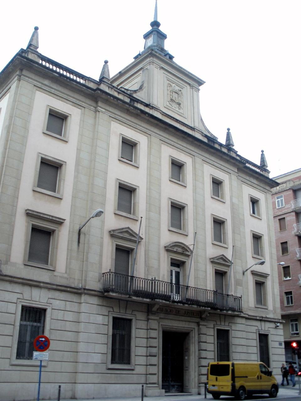 Antiguo Palacio de Justicia de Vitoria-Gasteiz. País Vasco, España